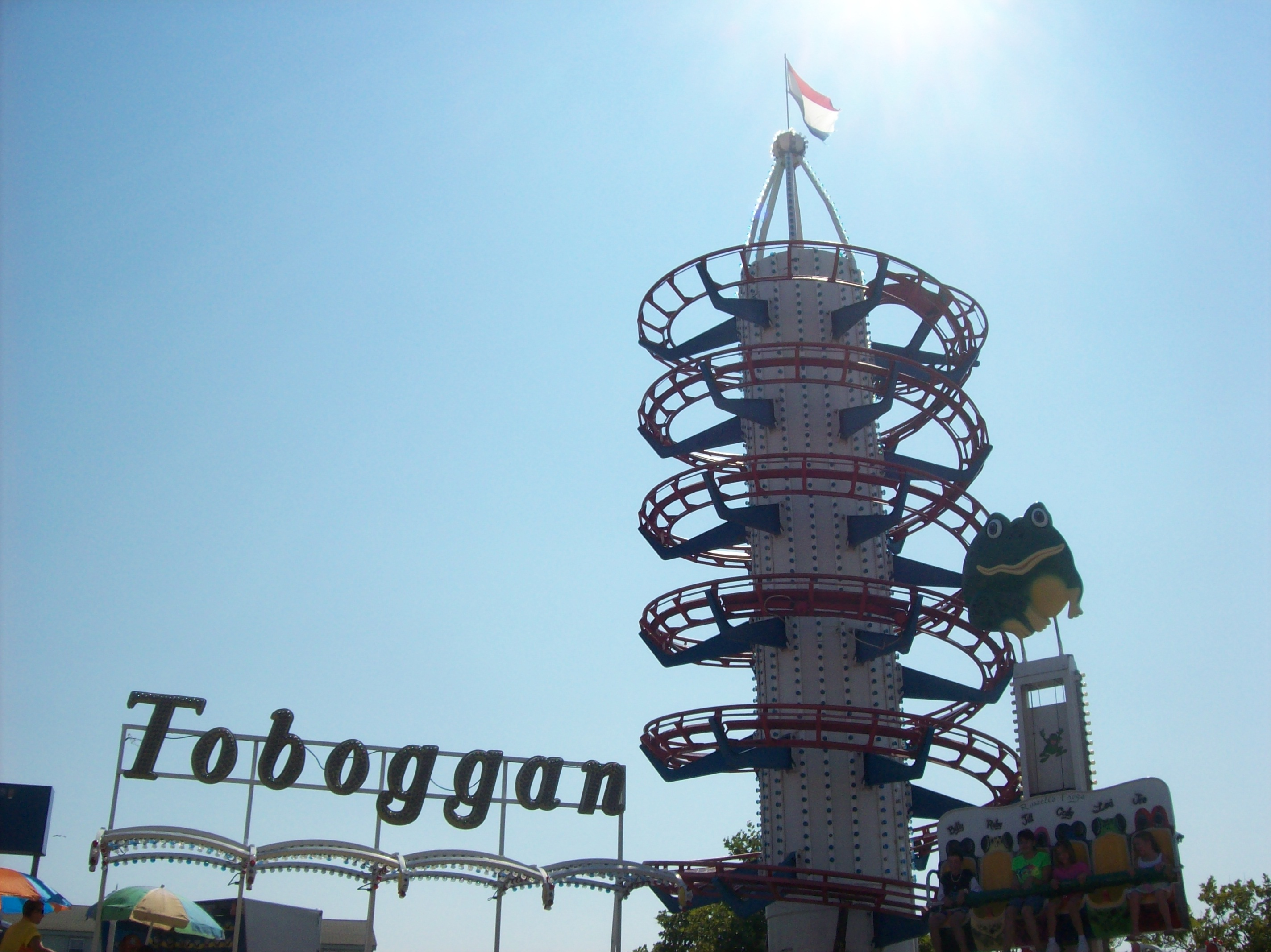 The Roller Coaster at Trimpers